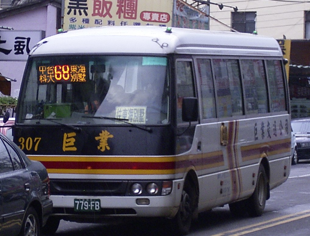 A public light bus 779-FB of Geya Bus Transportation, running on route 68 of Taichung City Bus. It is a Fuso Rosa vehicle.